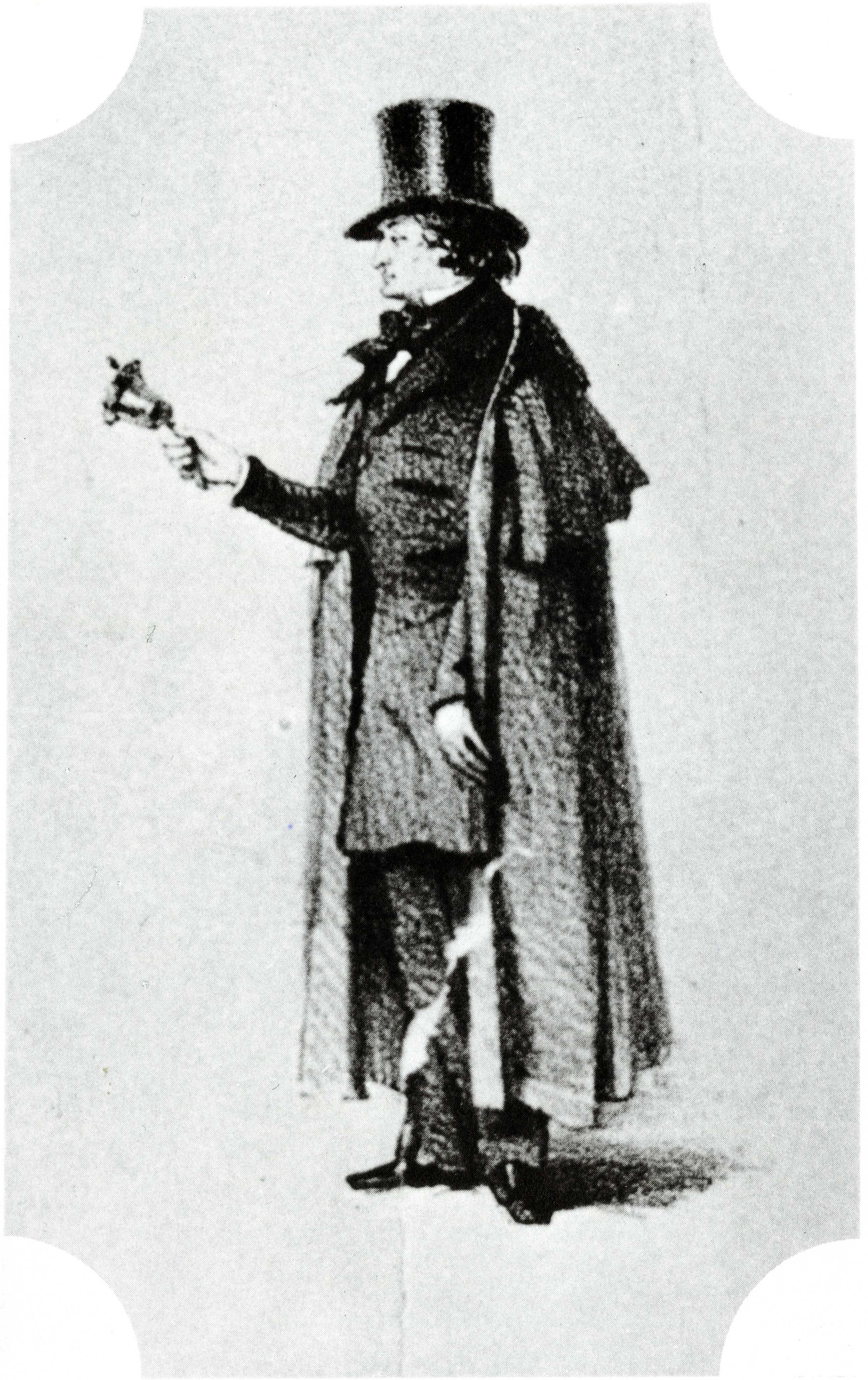 Johann Luzius Isler (1810-1877), Swiss gastronome in St. Petersburg